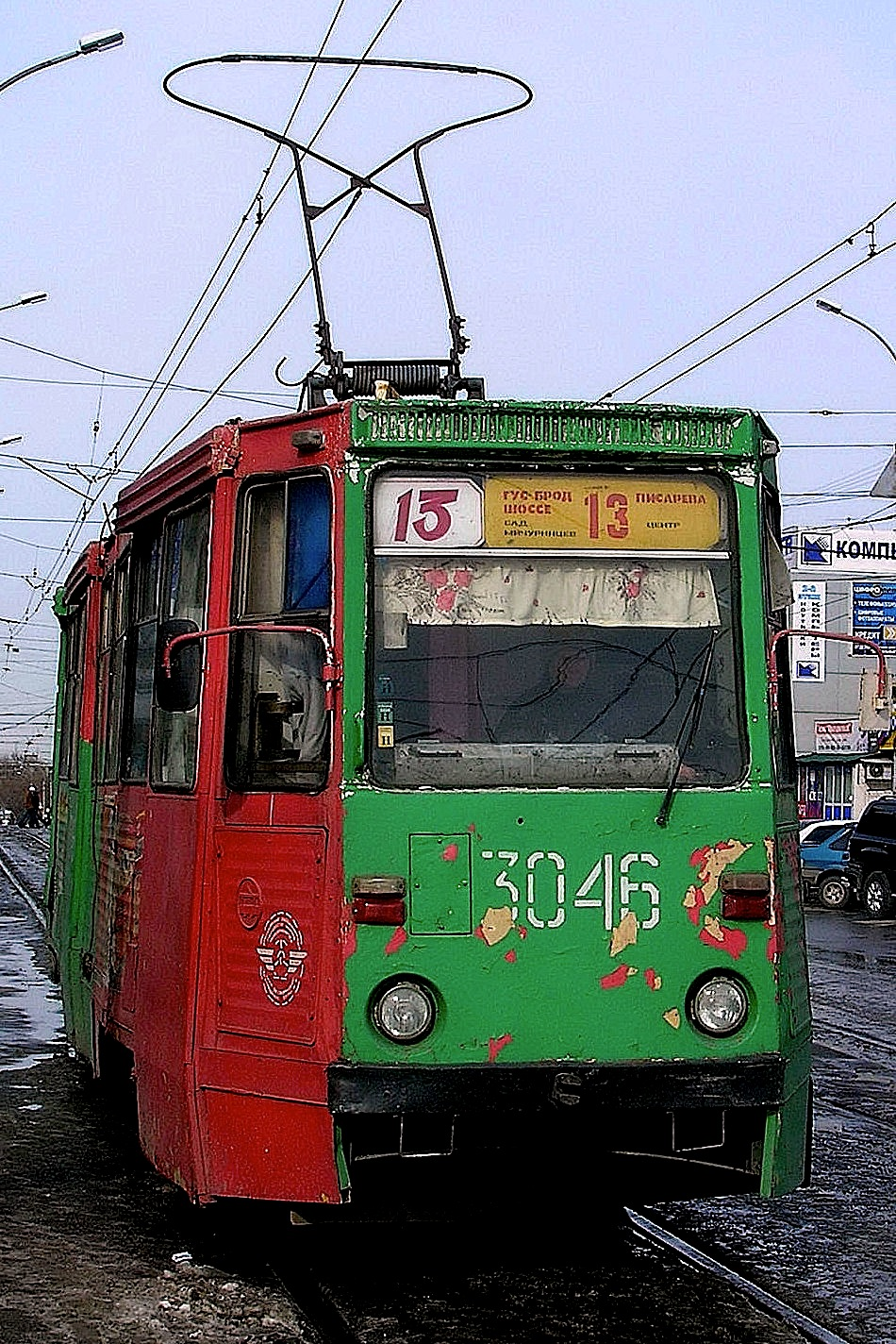 Tram No. 13, Novosibirsk, Russia